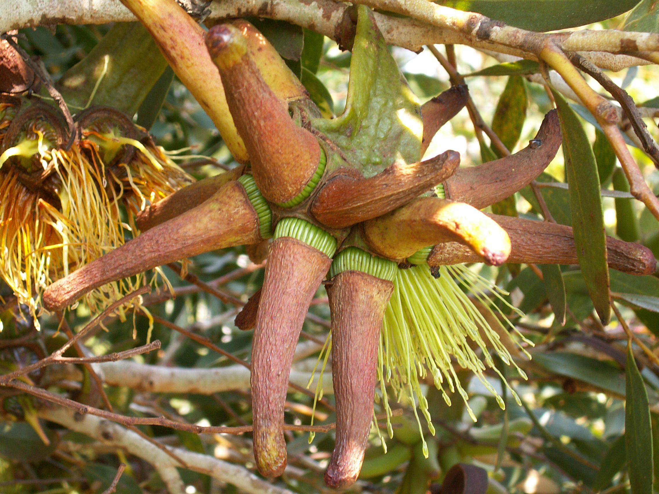 near Albany, Western Australia